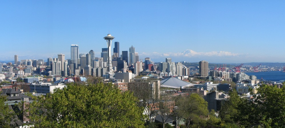 Seattle Skyline